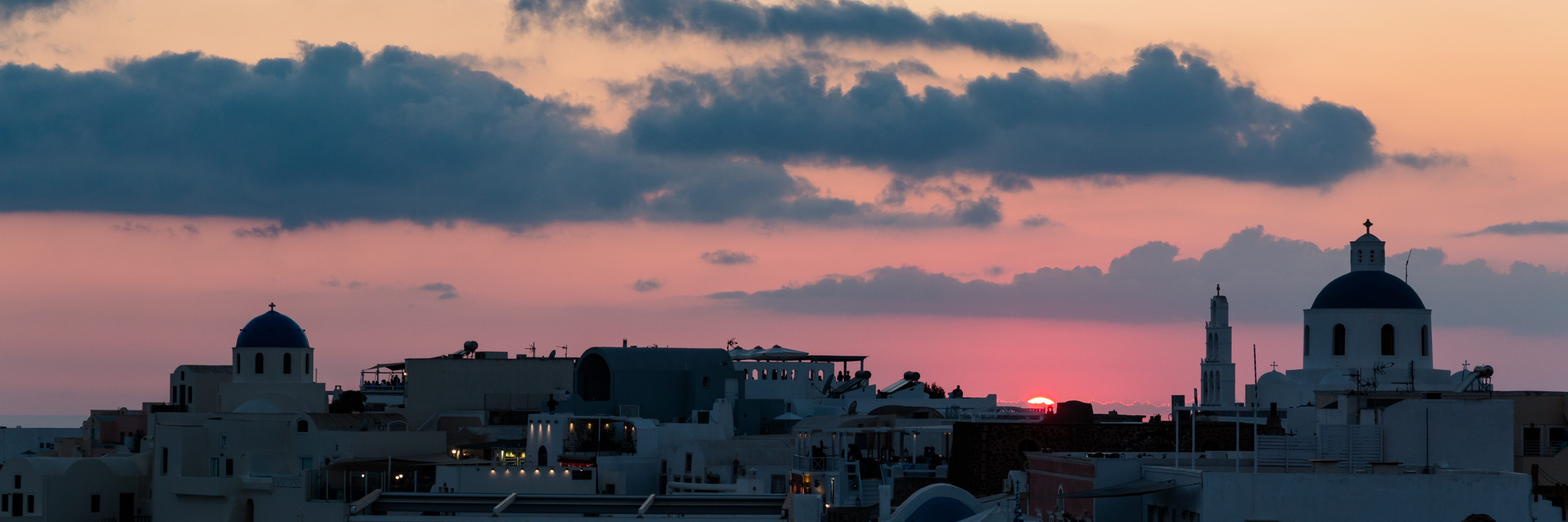 Sunset in Ia, Santorini, Greece